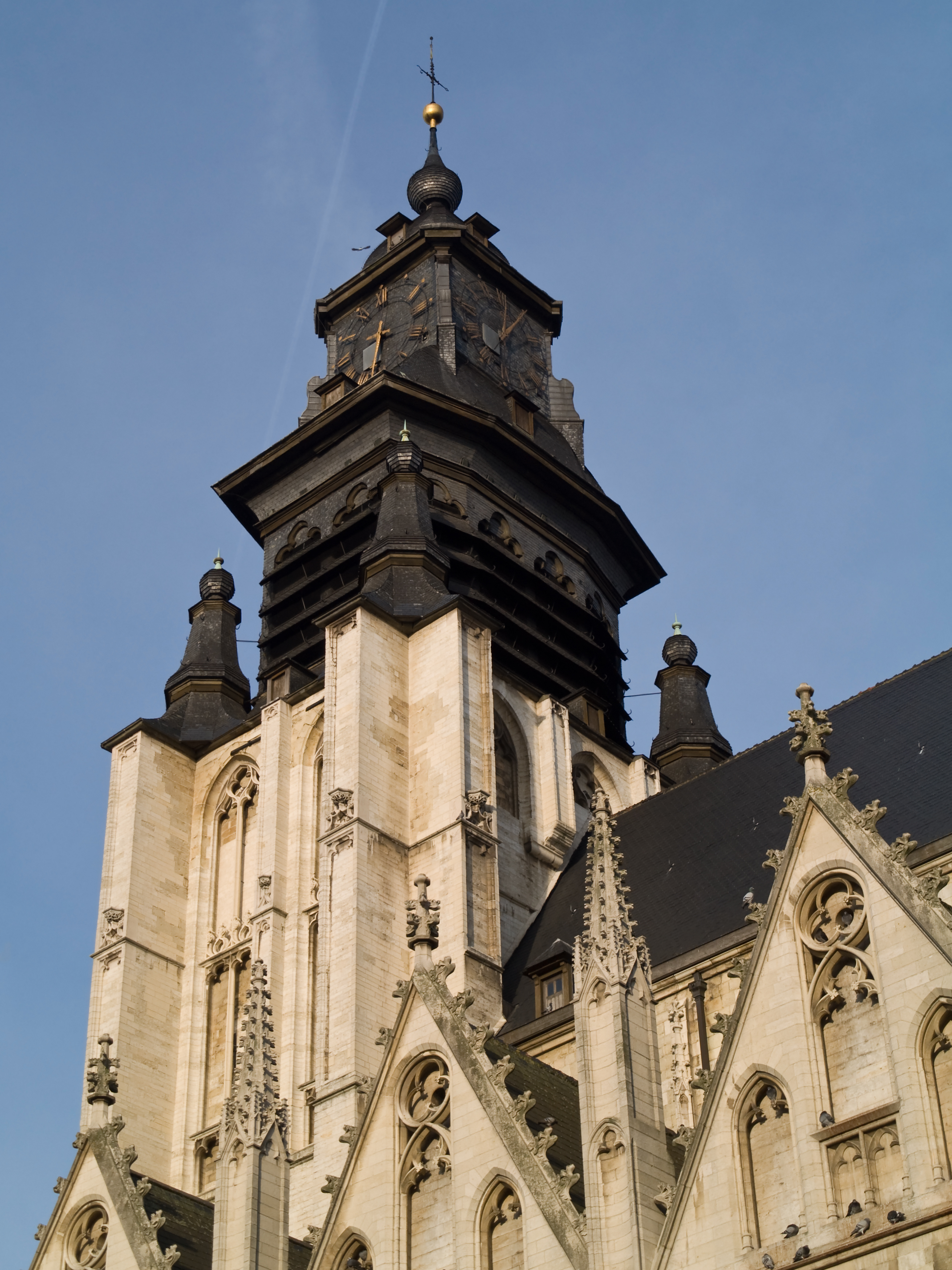 The slate Baroque church tower of 'Our Lady of the Chapel' in Brussels, Belgium, designed by architect Antoine Pastorana and added to the Gothic structure in 1699.